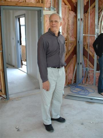 David Gross and construction works at KITP